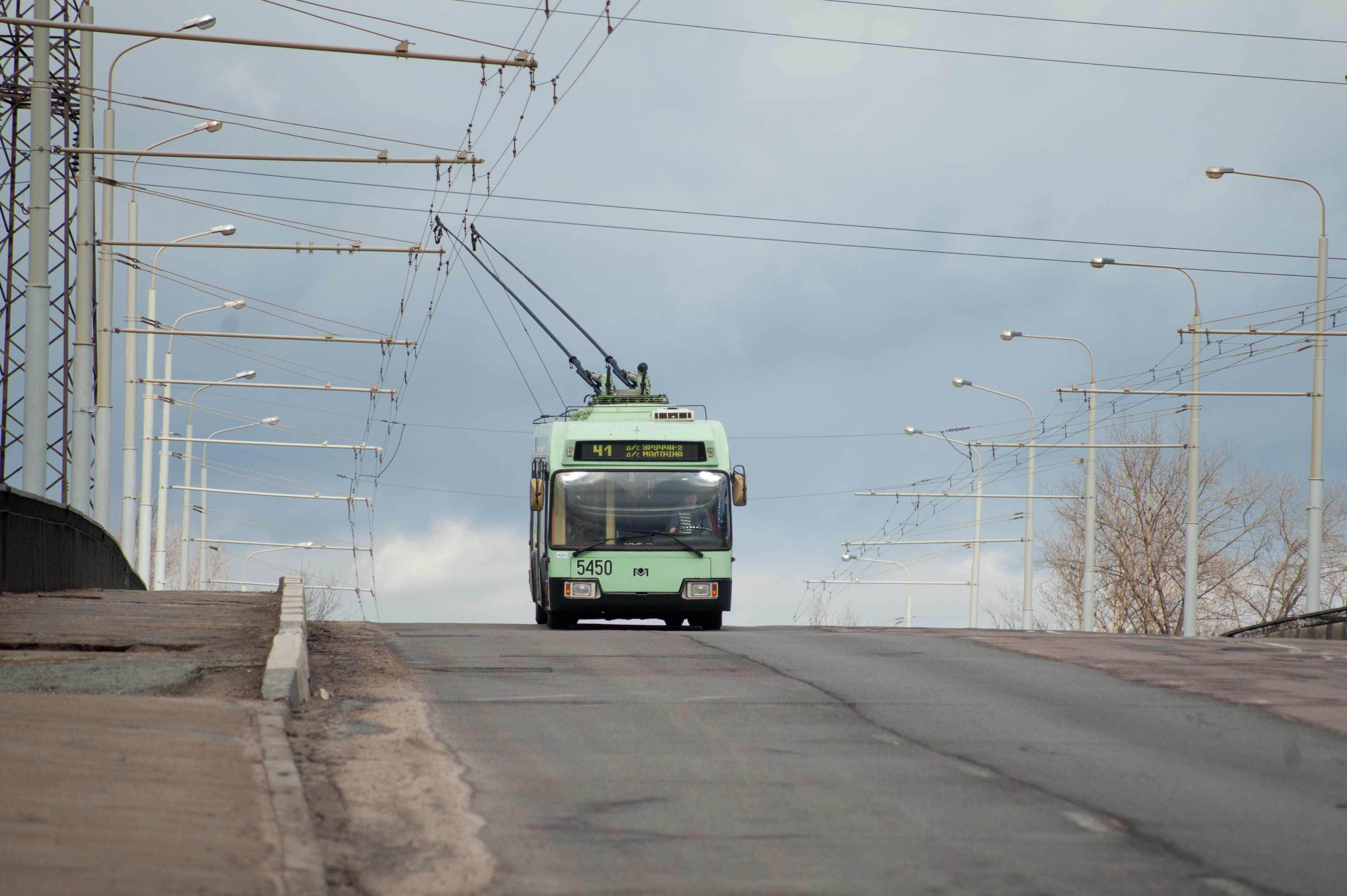 Trolleybus in Minsk on the vulica Vaŭpšasava